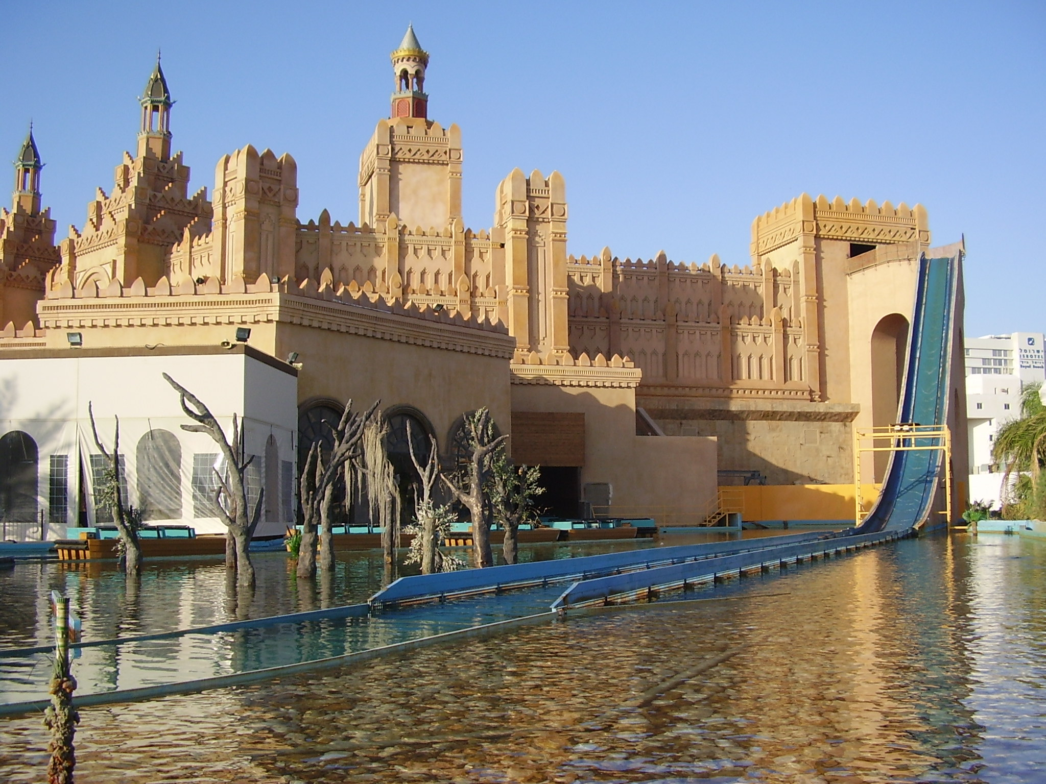 kings city in eilat, king solomon cascade